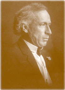 Charles Fletcher Lummis from the digital collection of Mike Manning